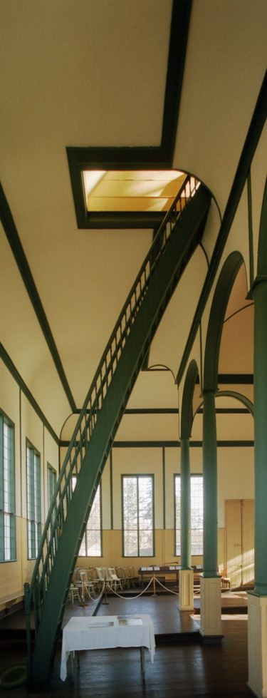 Jacobs ladder, Sharon Temple